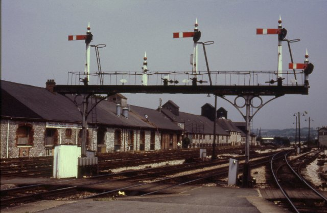 Signal Gantry at Newton Abbot Station Lovely old gantry that (at the time) sat at the east end of Newton Abbot Railway Station. Note the rather attractive buildings in the background some of which belonged to Newton Abbot Plastics Ltd.